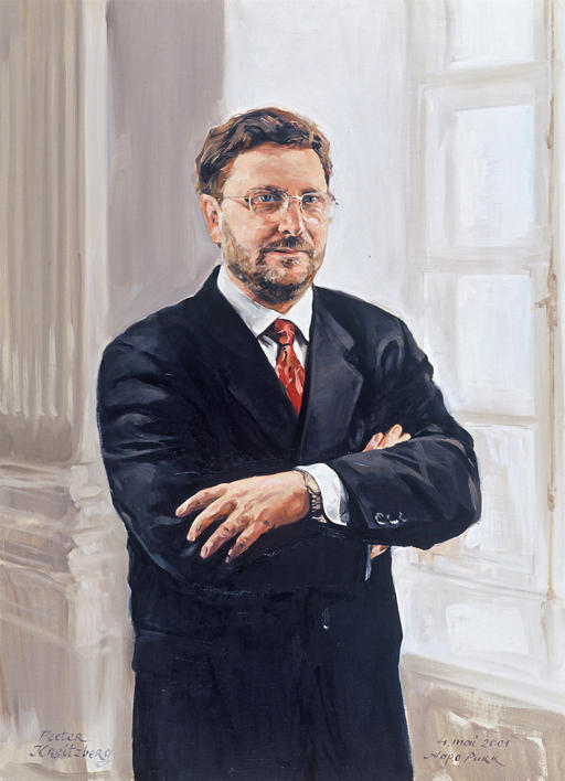 Peeter Kreitzberg painted by Aapo Pukk. 2002 Award of Merit. PSOA